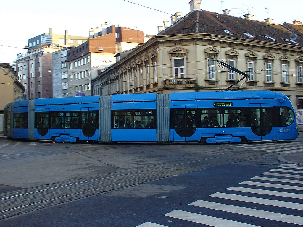 CROTRAM TMK 2200 tram (#2203) in Zagreb, Croatia. Built 2005.